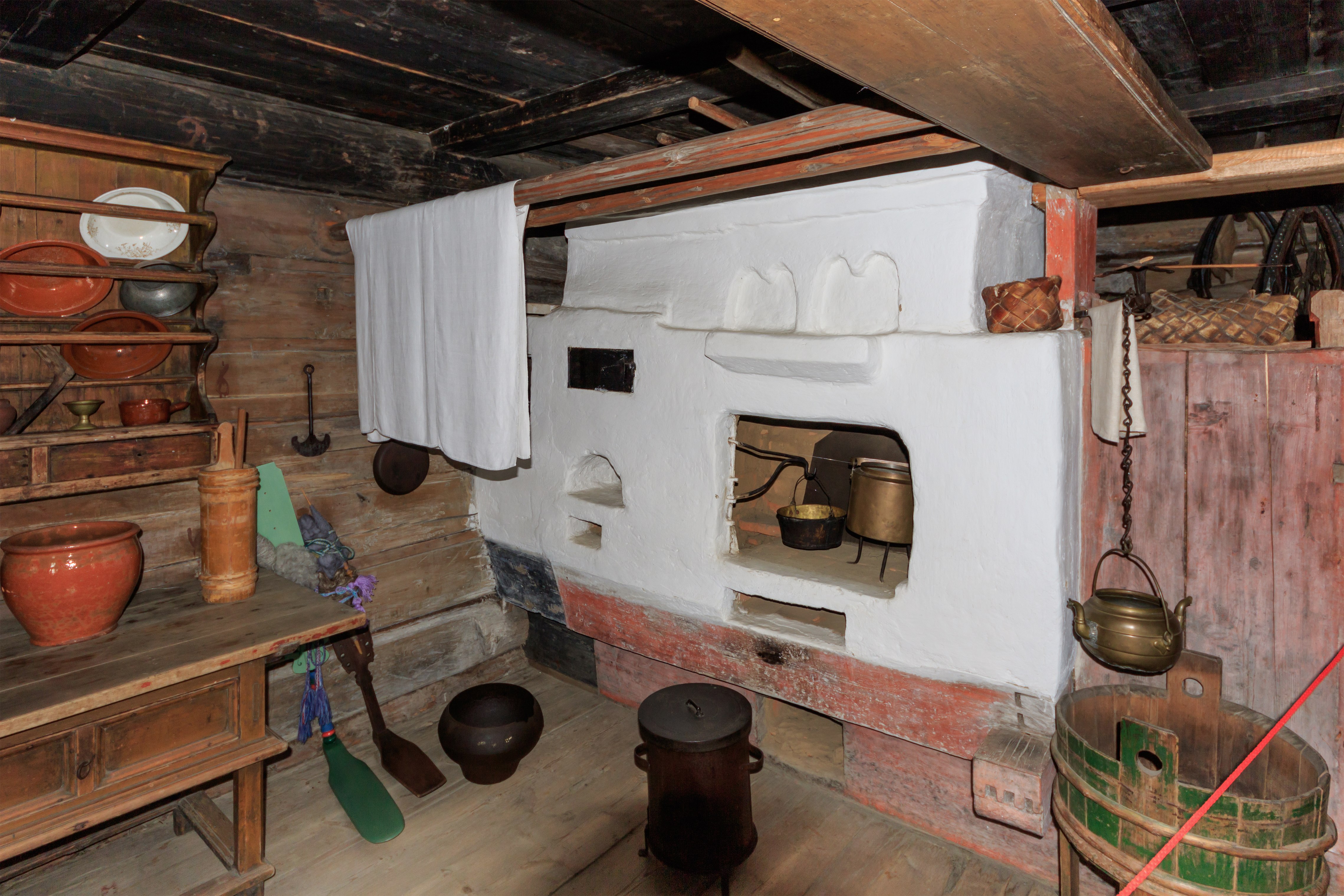 Interior of Oshevnev House on Kizhi Island, Republic of Karelia (Russia).